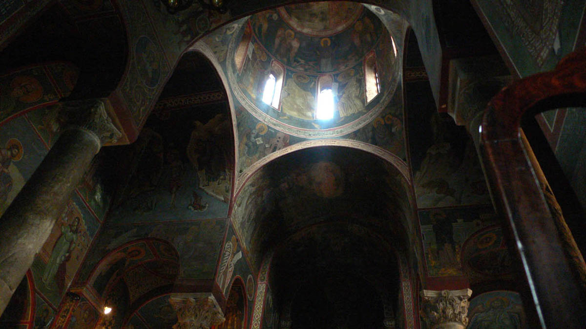 Byzantine church of Kapnikarea in Athens.